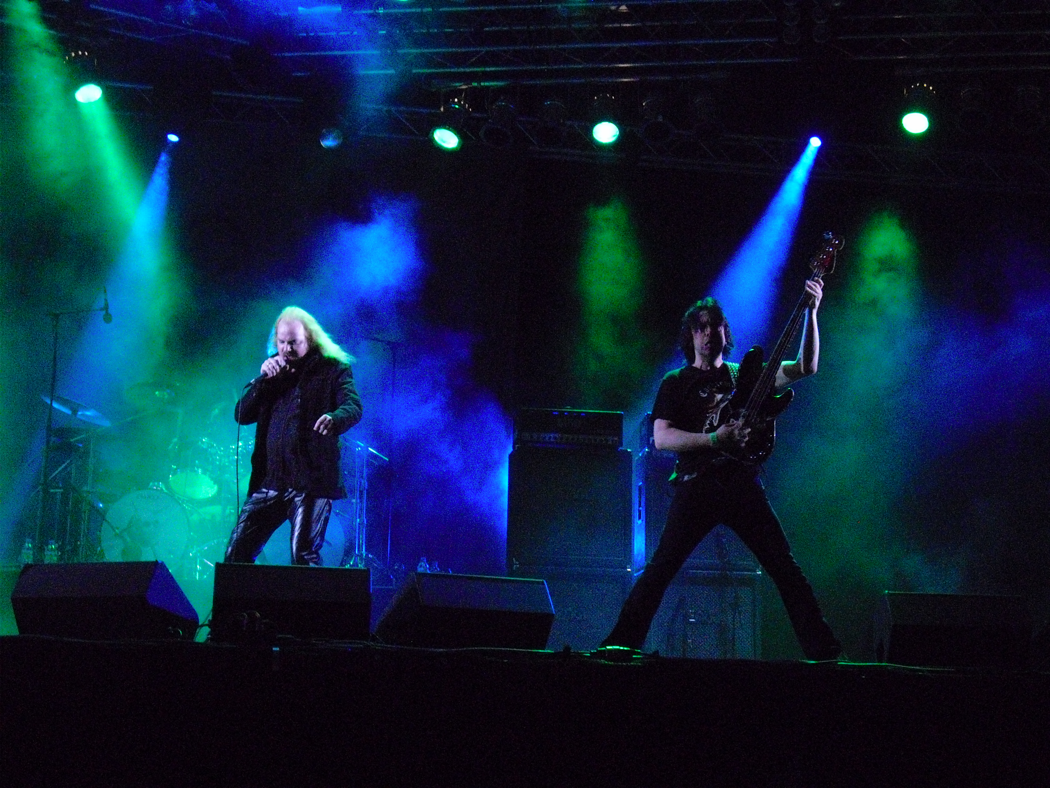 Candlemass performing live at Wacken Open Air in August 2010